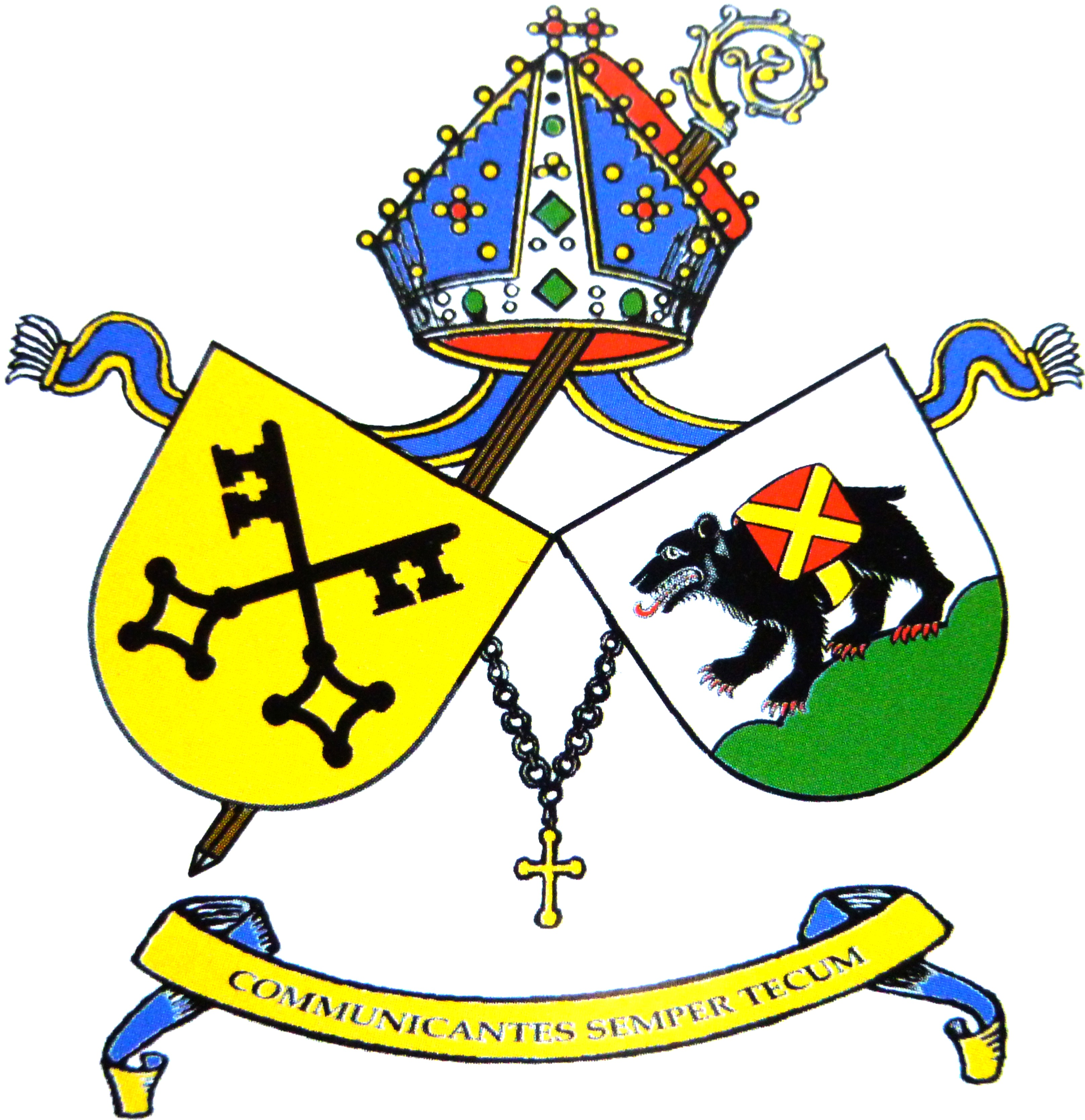 coat of arms of Archabbot Korbinian Birnbacher OSB, Archabbey Saint Peter Salzburg (2013)